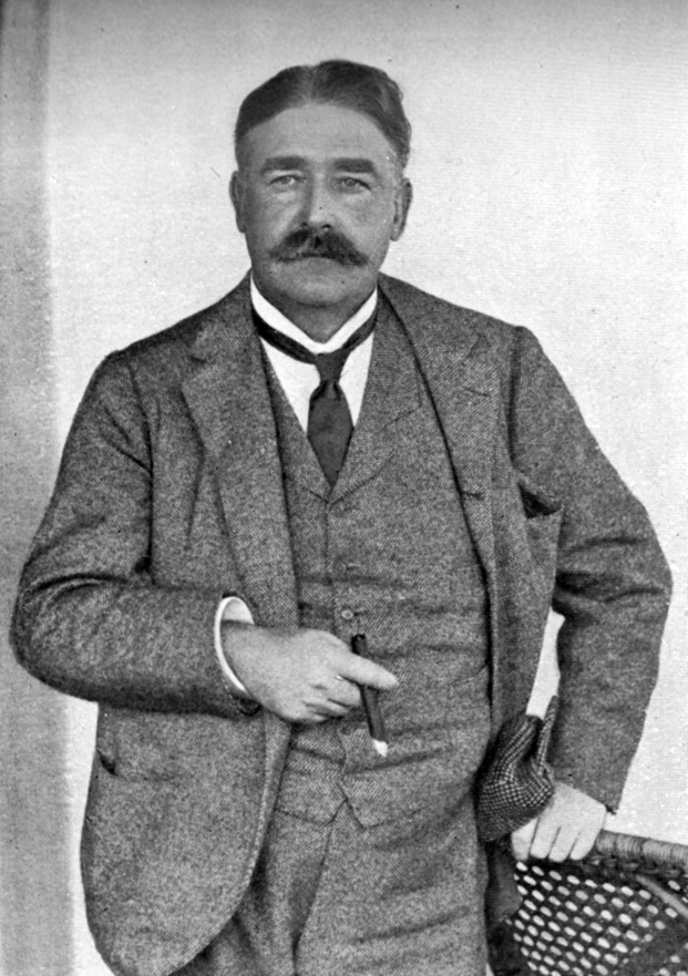 Photograph of George Edwardes by Ellis & Walery, scanned from the 1914 edition of Cellier & Bridgeman's Gilbert and Sullivan and Their Operas.